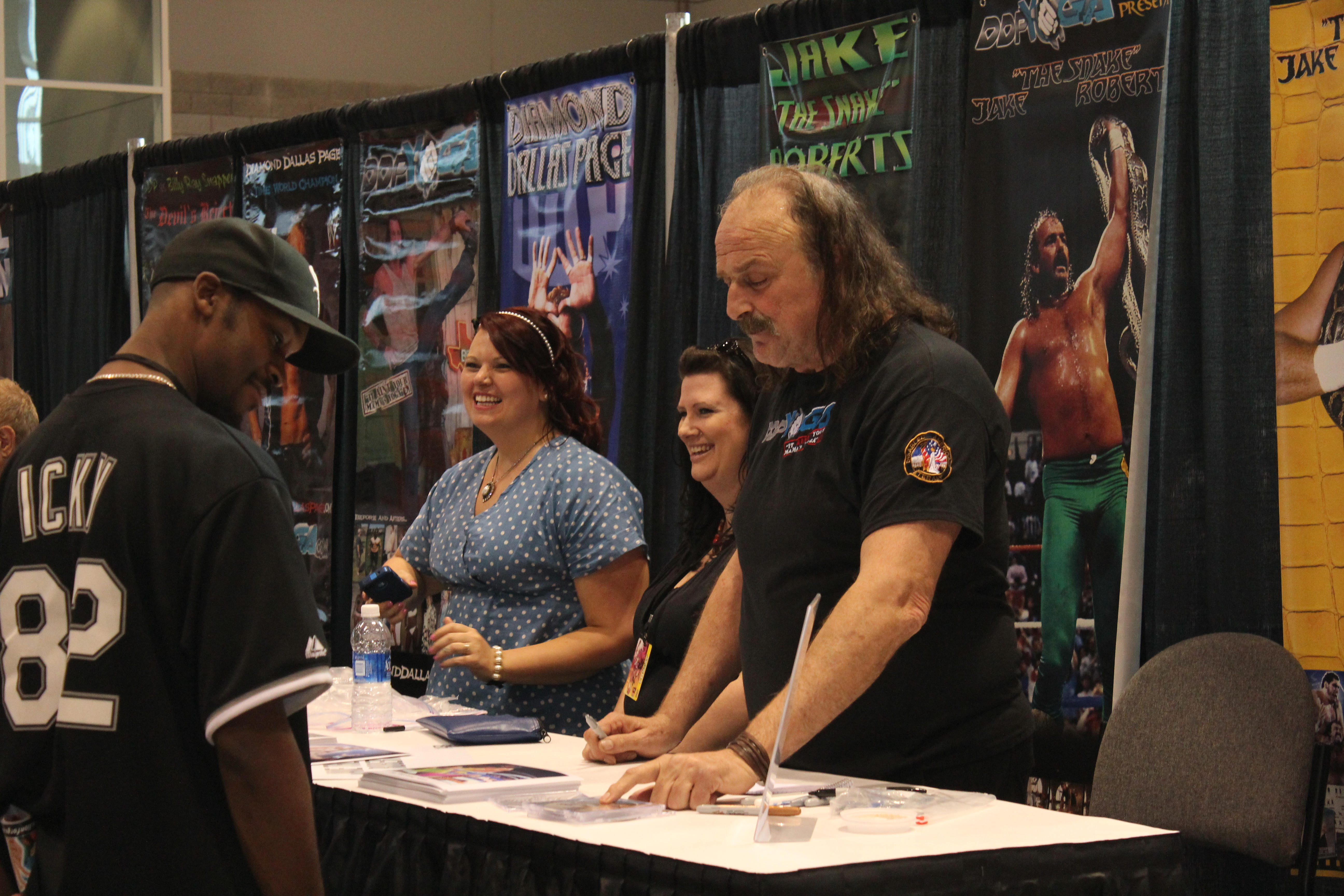 Chicago Comic & Entertainment Expo (C2E2) in 2013.